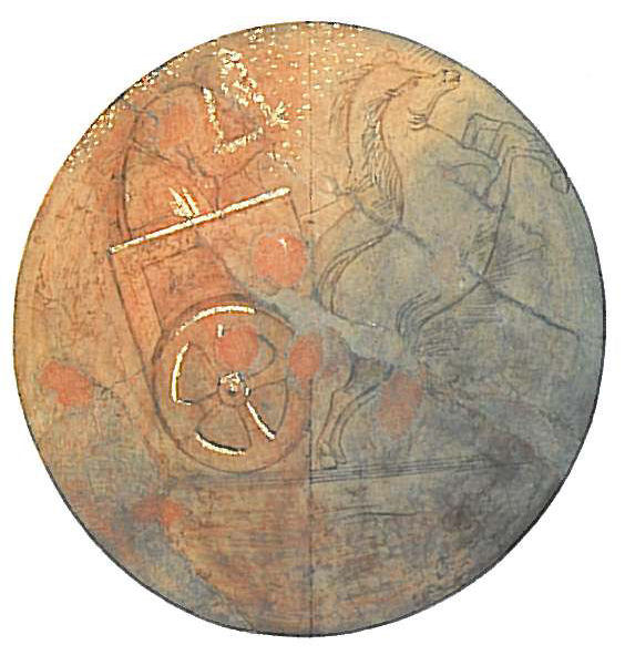 fresco painted by Michelangelo and his assistants for the Sistine Chapel in the Vatican between 1508 to 1512